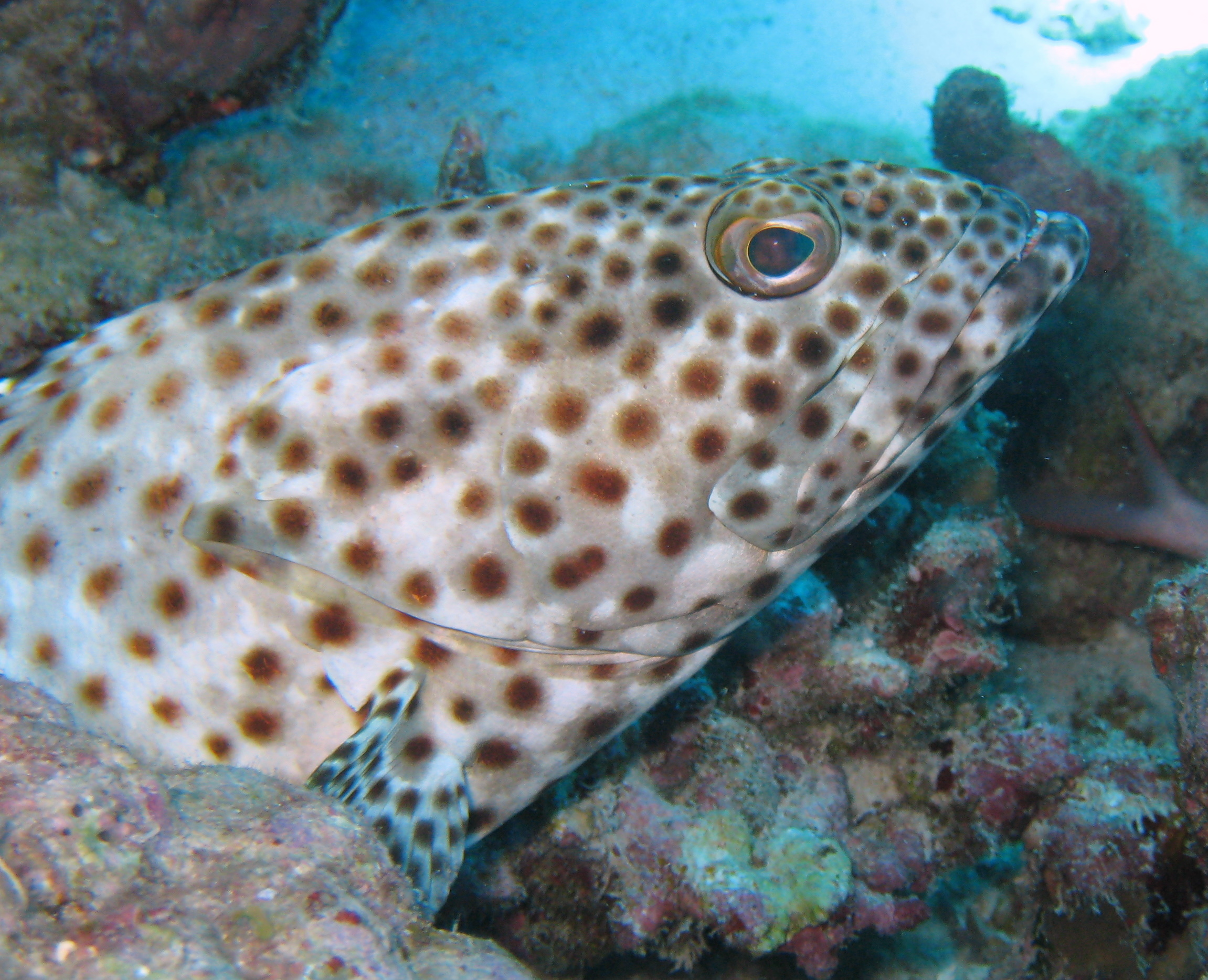 Epinephelus tauvina in Safaga